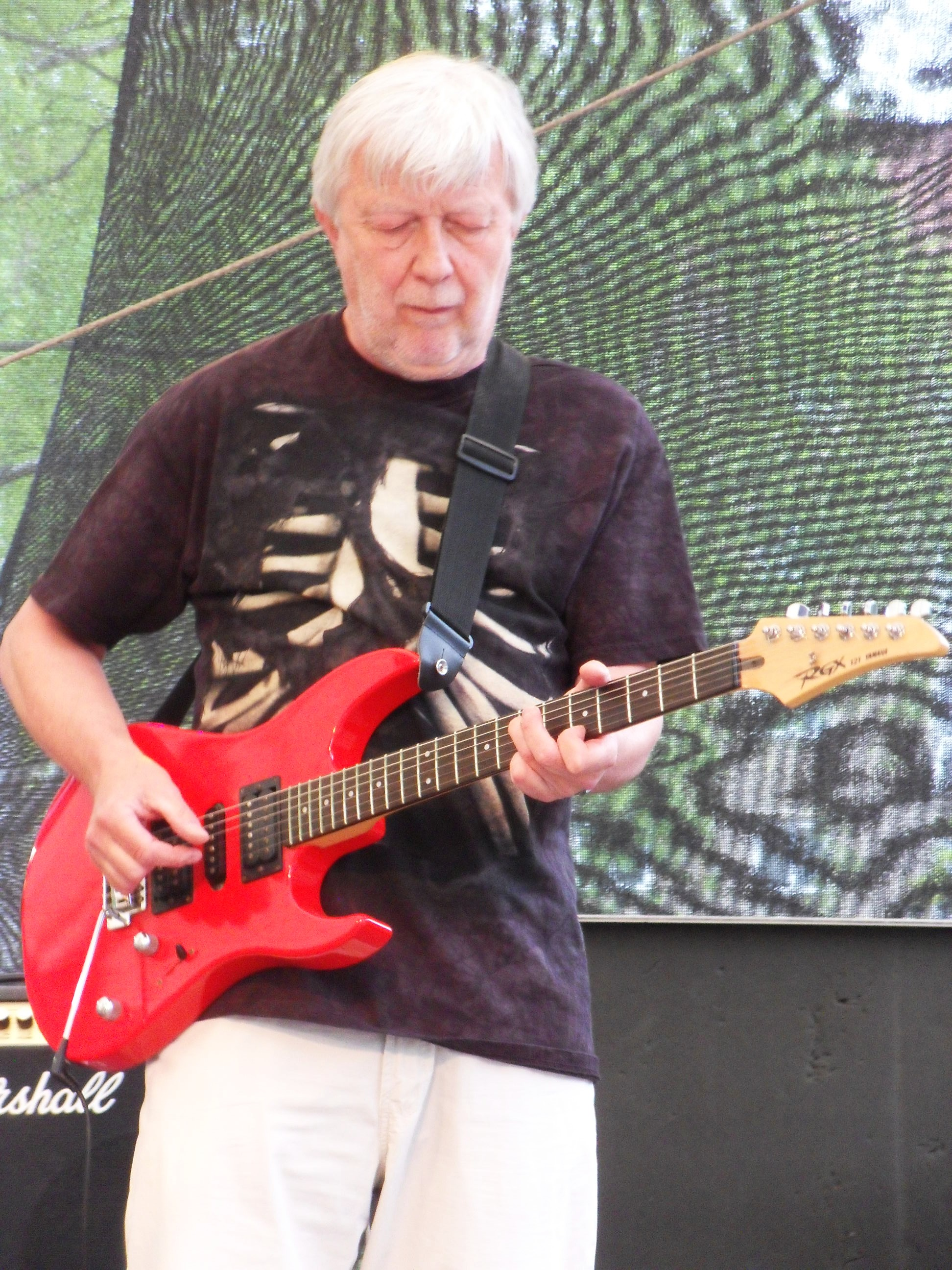 Petr Směja, guitarist of Czech rock band Synkopy 61, Brno, Czech Republic